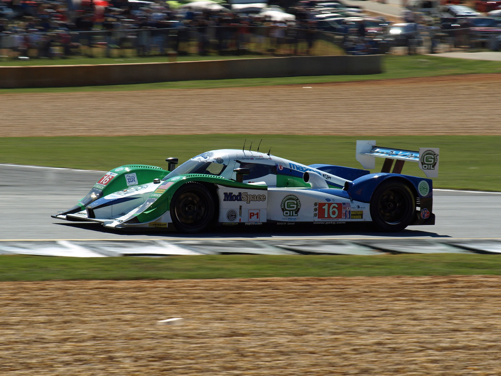 Chris Dyson driving the Dyson Racing Lola B09/86 in the 2011 Petit Le Mans at Road Atlanta.